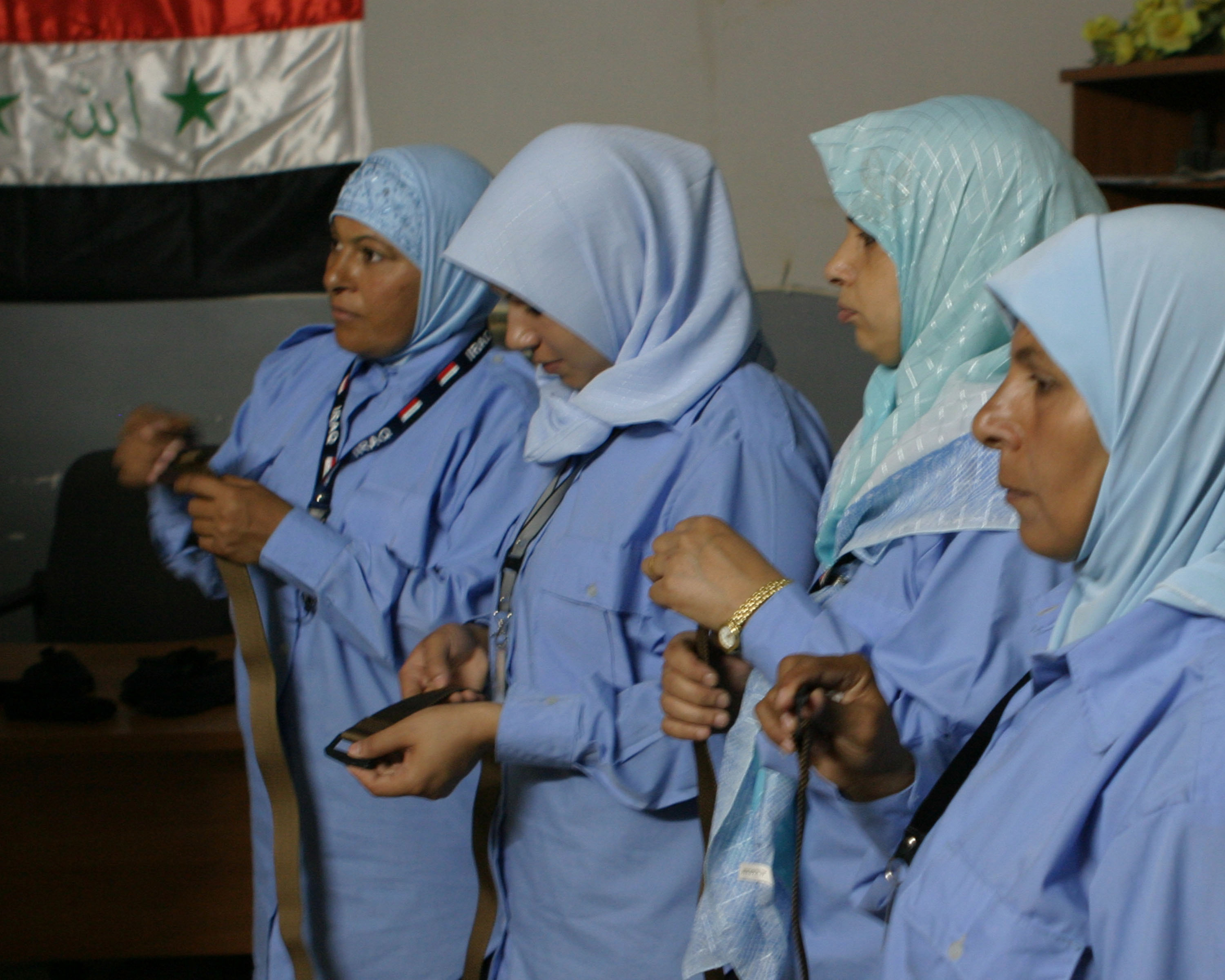 23 July 2007, Female police officers receive pistol belts at the Forsan Police Station in Ar Ramadi, Iraq. Female Iraqi Police officers received their initial gear issue, conducted basic weapon handling techniques and escalation of force drills provided by Marines with 2nd Battalion, 5th Marines [2-5], 3rd Infantry Division, II Marine Expeditionary Force. 2-5 is deployed with Multi National Forces-West in support of Operation Iraqi Freedom in the Al Anbar province of Iraq to develop Iraqi Security Forces, facilitate the development of official rule of law through democratic reforms, and continue the development of a market based economy centered on Iraqi reconstruction.